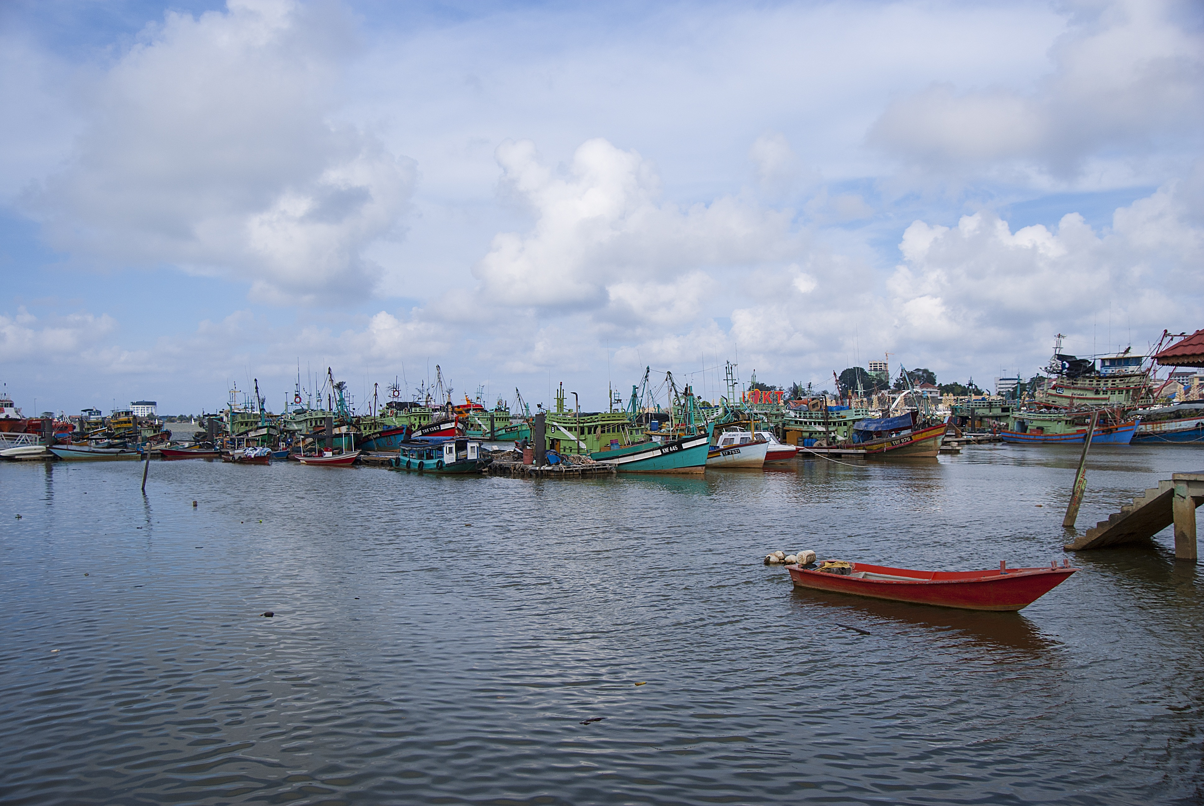 A view of the Kuala Terengganu River (or Sungai Terengganu in the Malay/Indonesian language) situated in Terengganu state, Malaysia. This view was taken around Duyong Island in the mouth of the Terengganu River.